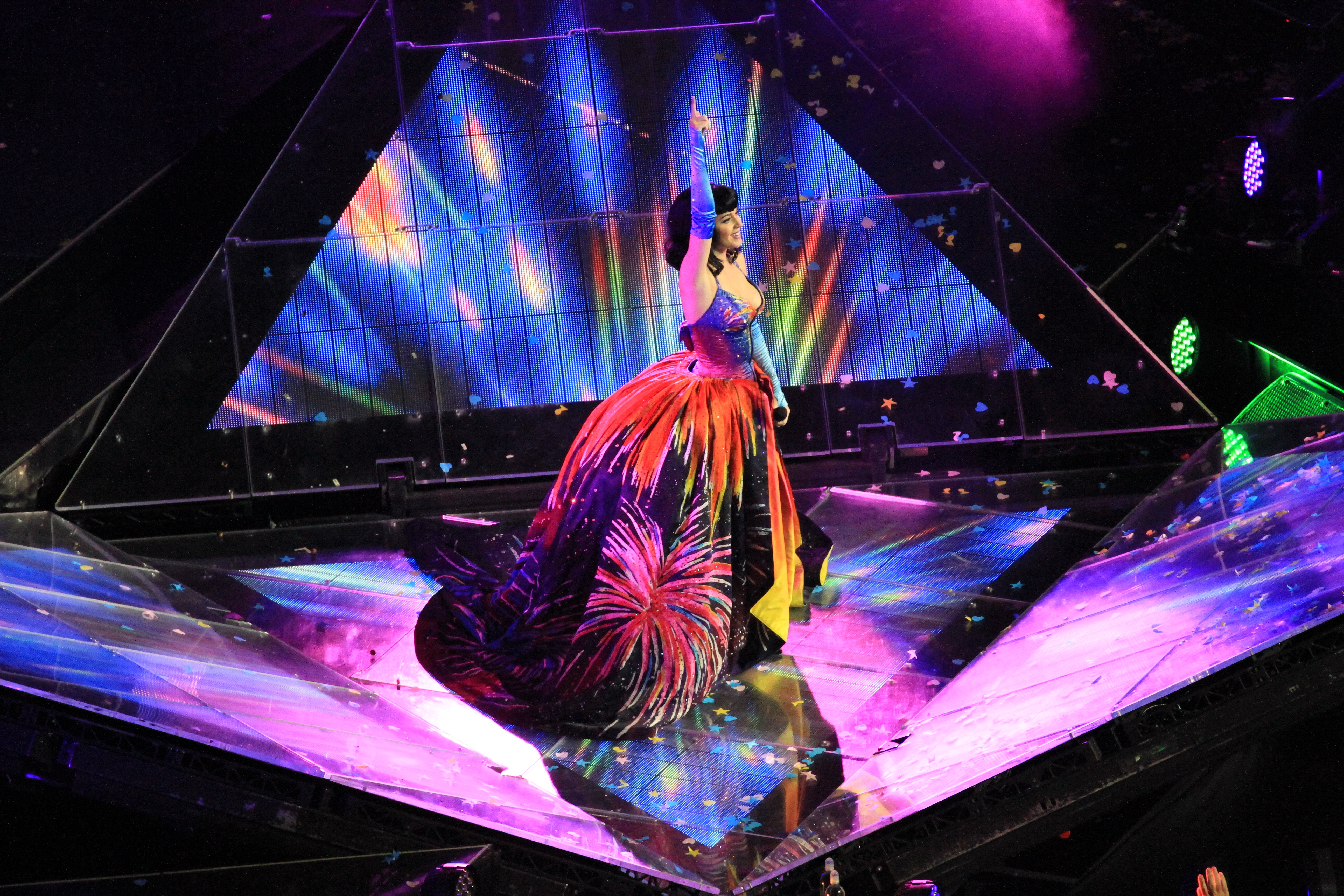 Katy Perry performing "Firework" at Prudential Center in Newark in July 12, 2014.